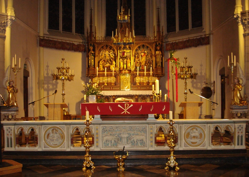 Sint-Petrus-en-Pauluskerk, Maastricht, The Netherlands - choir